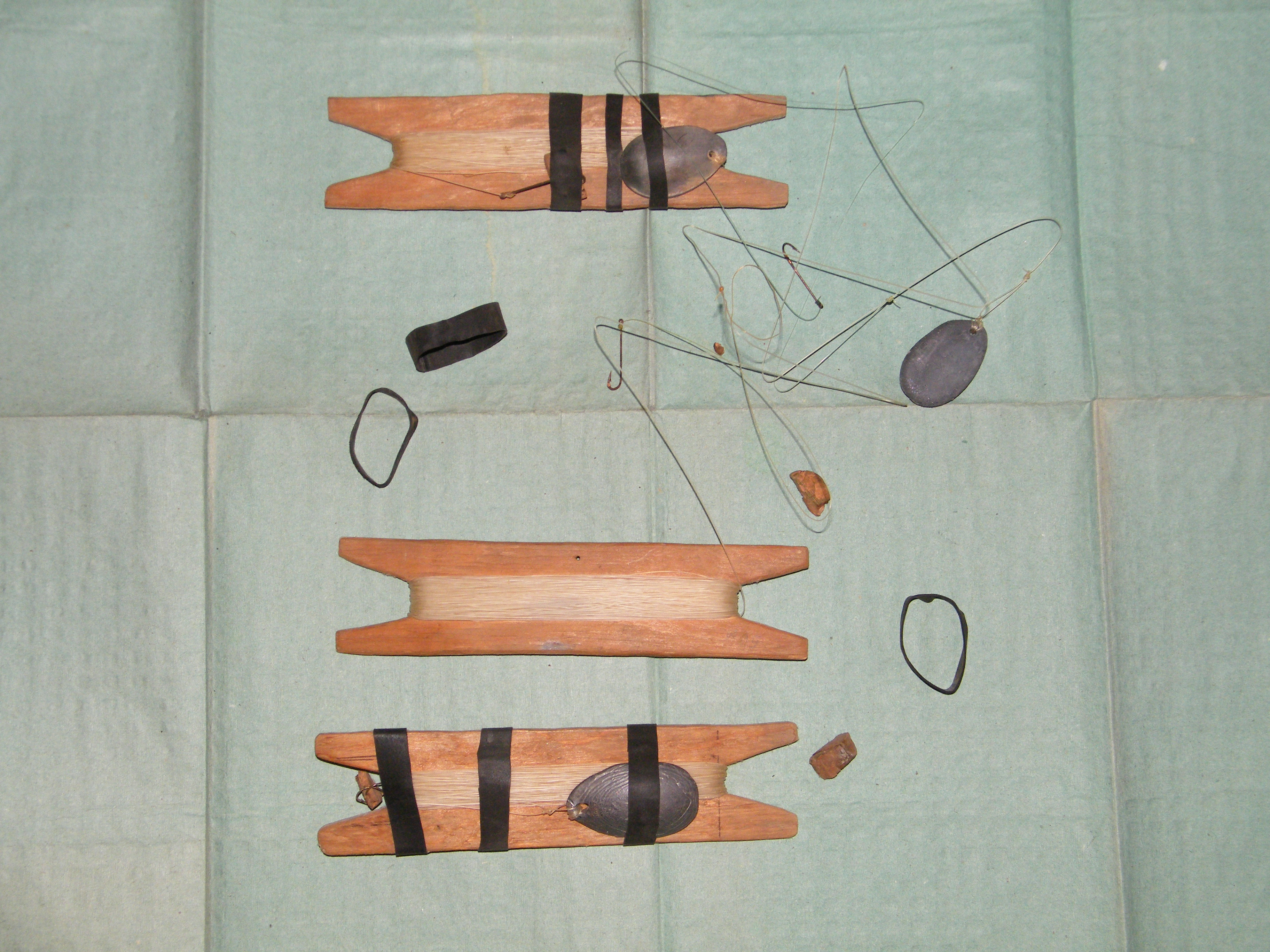 Fishing equipment